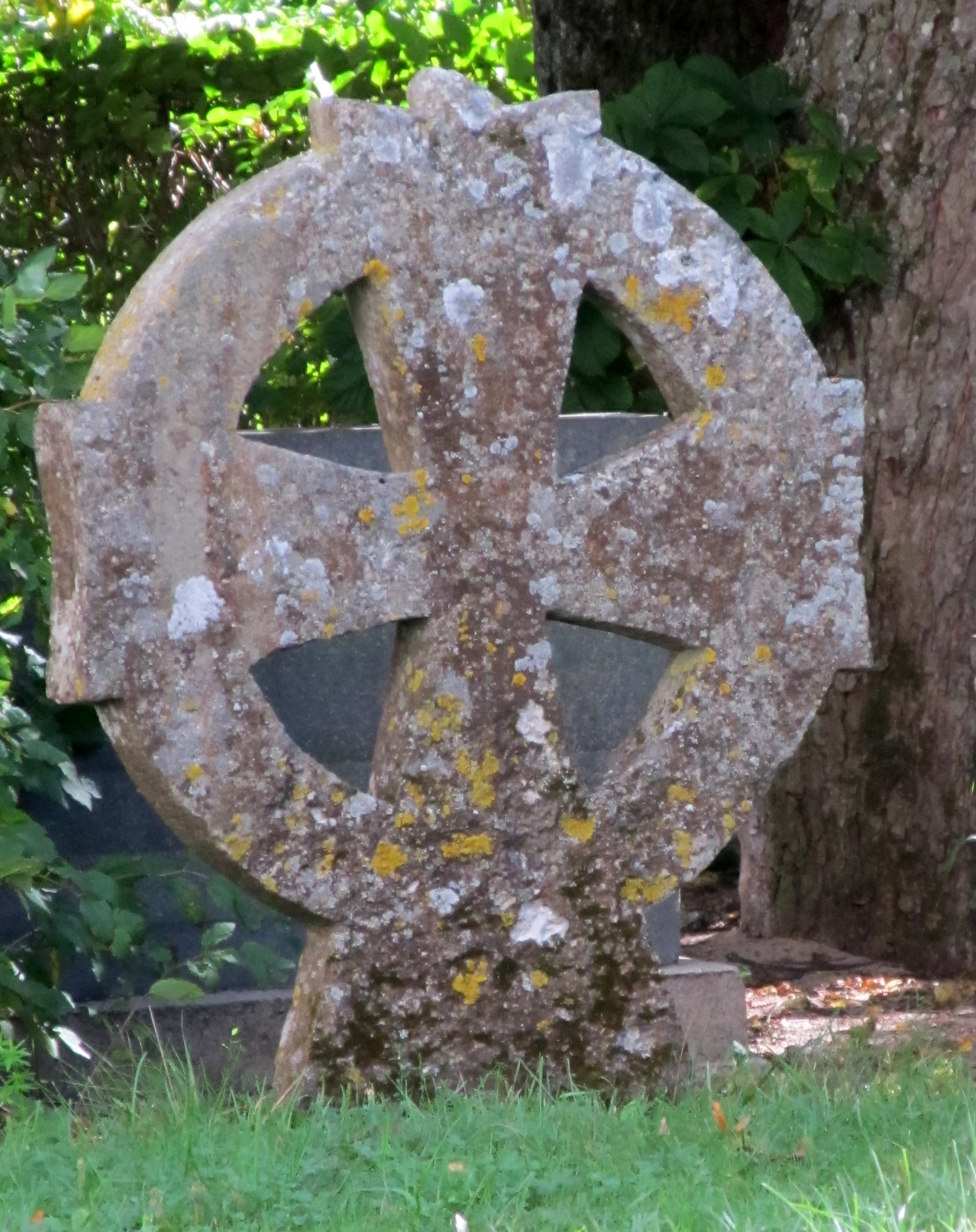 Wheel-cross from Kullamaa church's yard